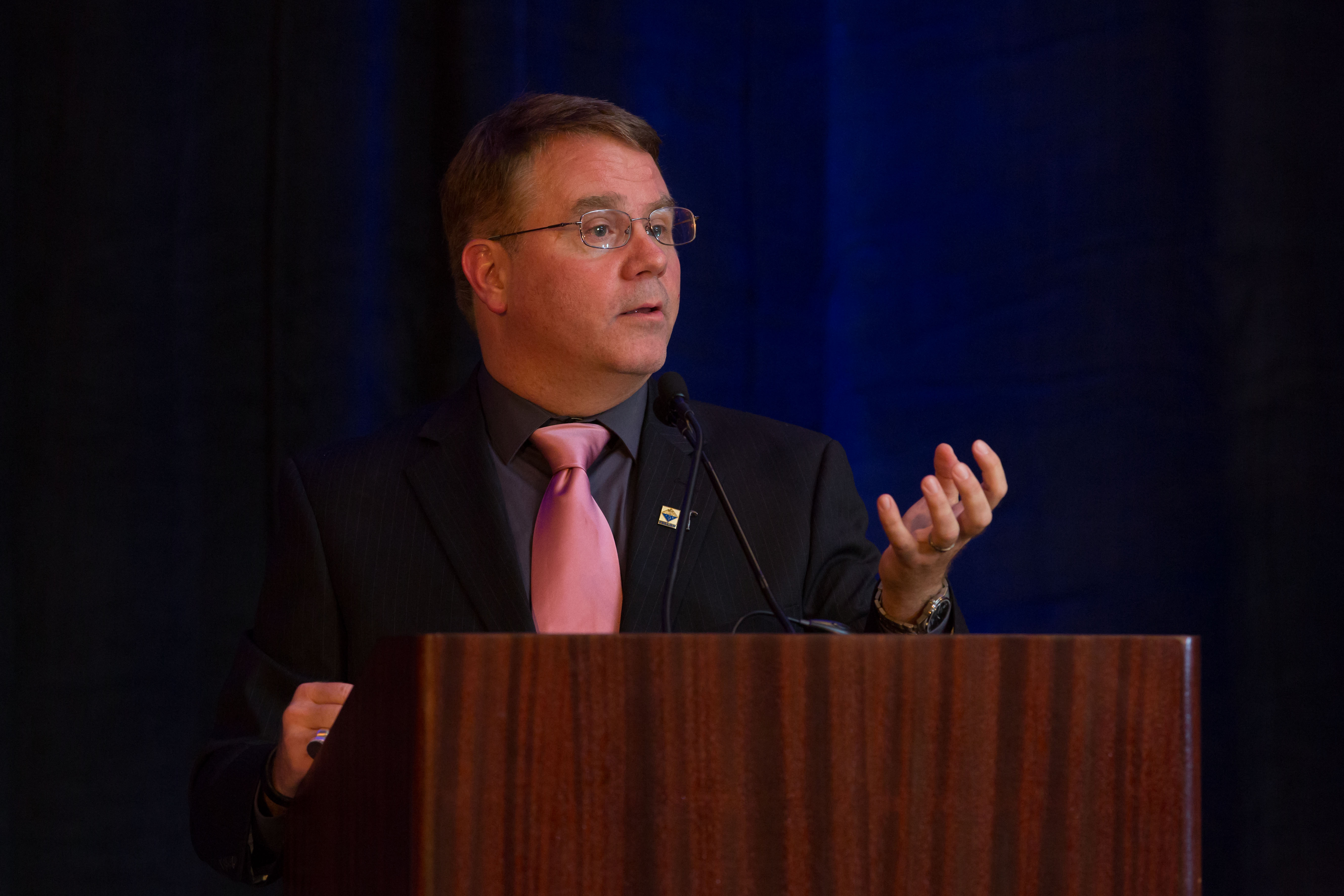 Photograph of John C. Warner, winner of the Perkin Medal and speaker at Innovation Day, September 16, 2014, at the Chemical Heritage Foundation, Philadelphia, PA, USA.